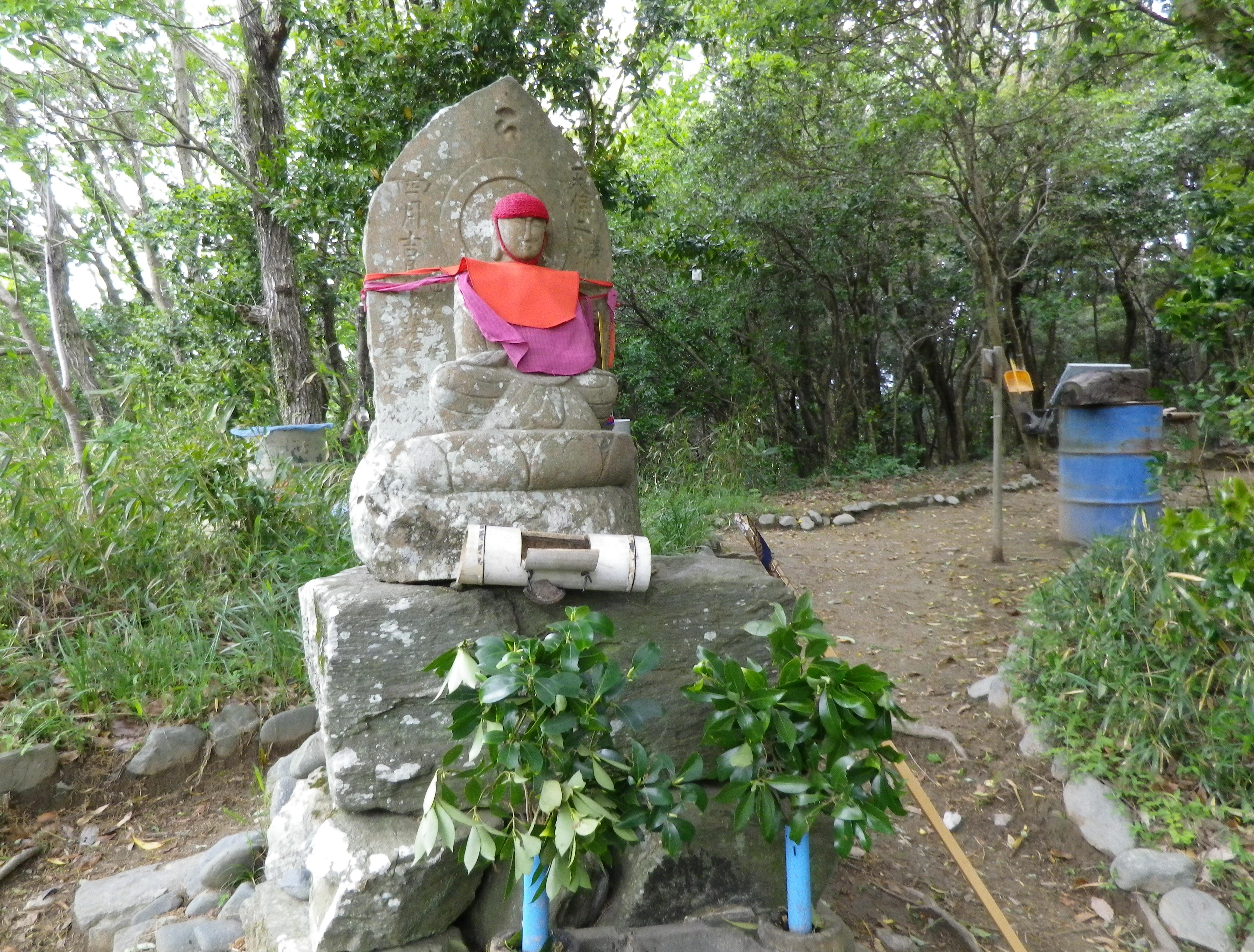 Top of Jizō-goe pass